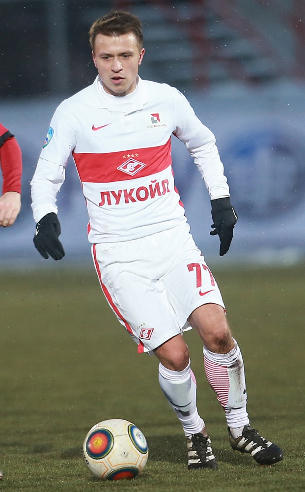 Konstantin Savichev with FC Spartak-2 Moscow in a game against FC Khimki.